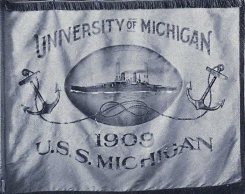 Photograph of silk presented by the crew of the USS Michigan to the 1909 Michigan Wolverines football team in November 1909. Published in the 1910 Michiganensian (University of Michigan yearbook), page 225